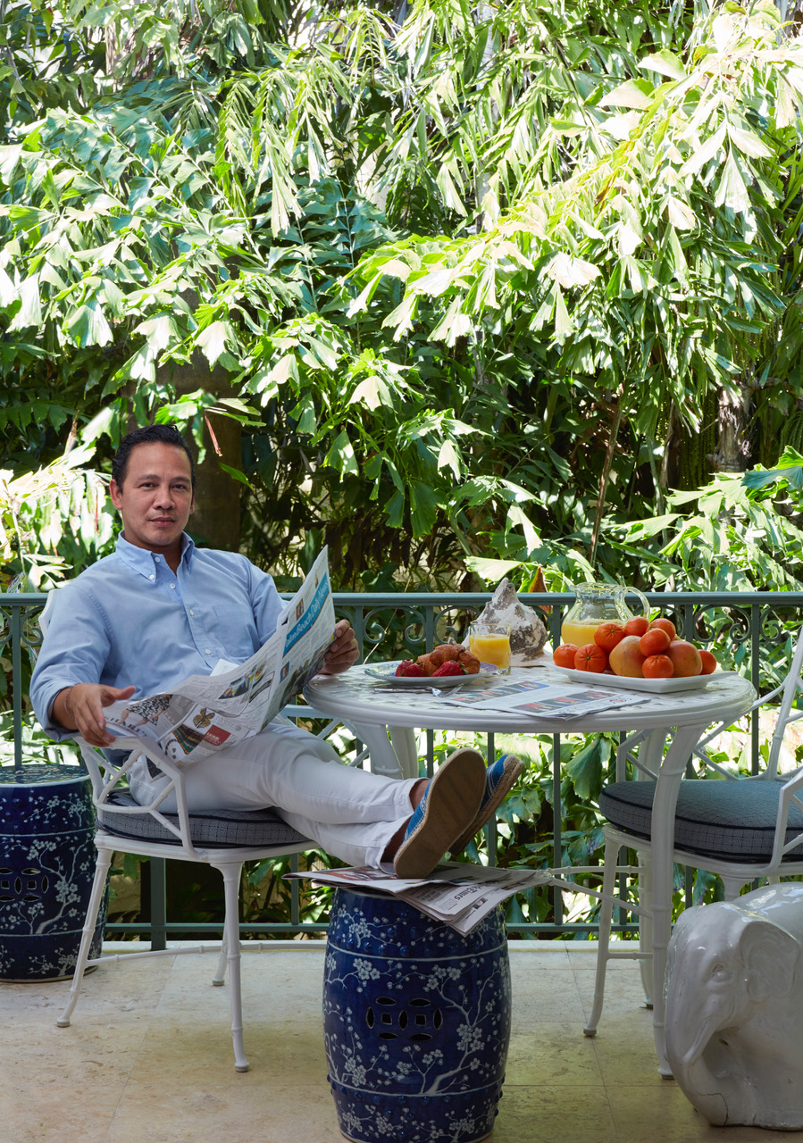 Fernando Wong is a landscape architect. He is sitting in a garden of his own design.